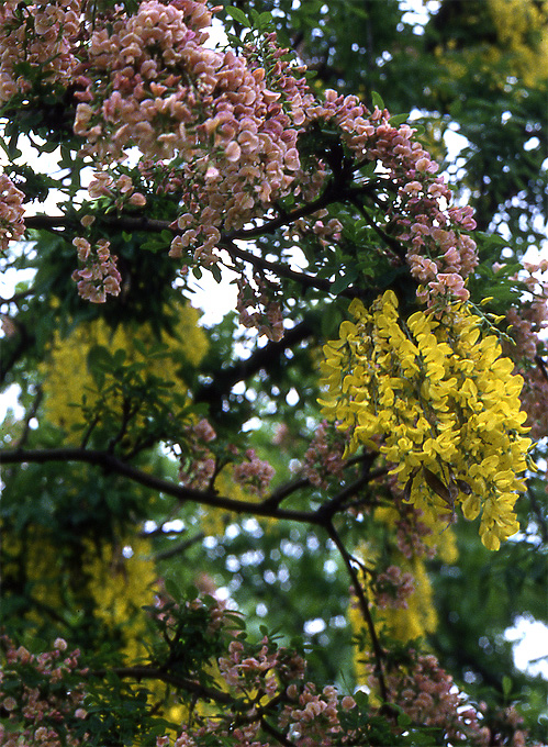 A tree of +Laburnocytisus 'Adamii', a so-called "graft hybrid" or "graft-chimaera". This tree was created by grafting a purple broom, Cytisus purpureus, onto a laburnum, and has flowers typical of both plants as well as some which are intermediate between the two. For more information, see +Laburnocytisus 'Adamii'.